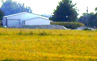 A photo of the May Township Road Department Office. Taken from the North.